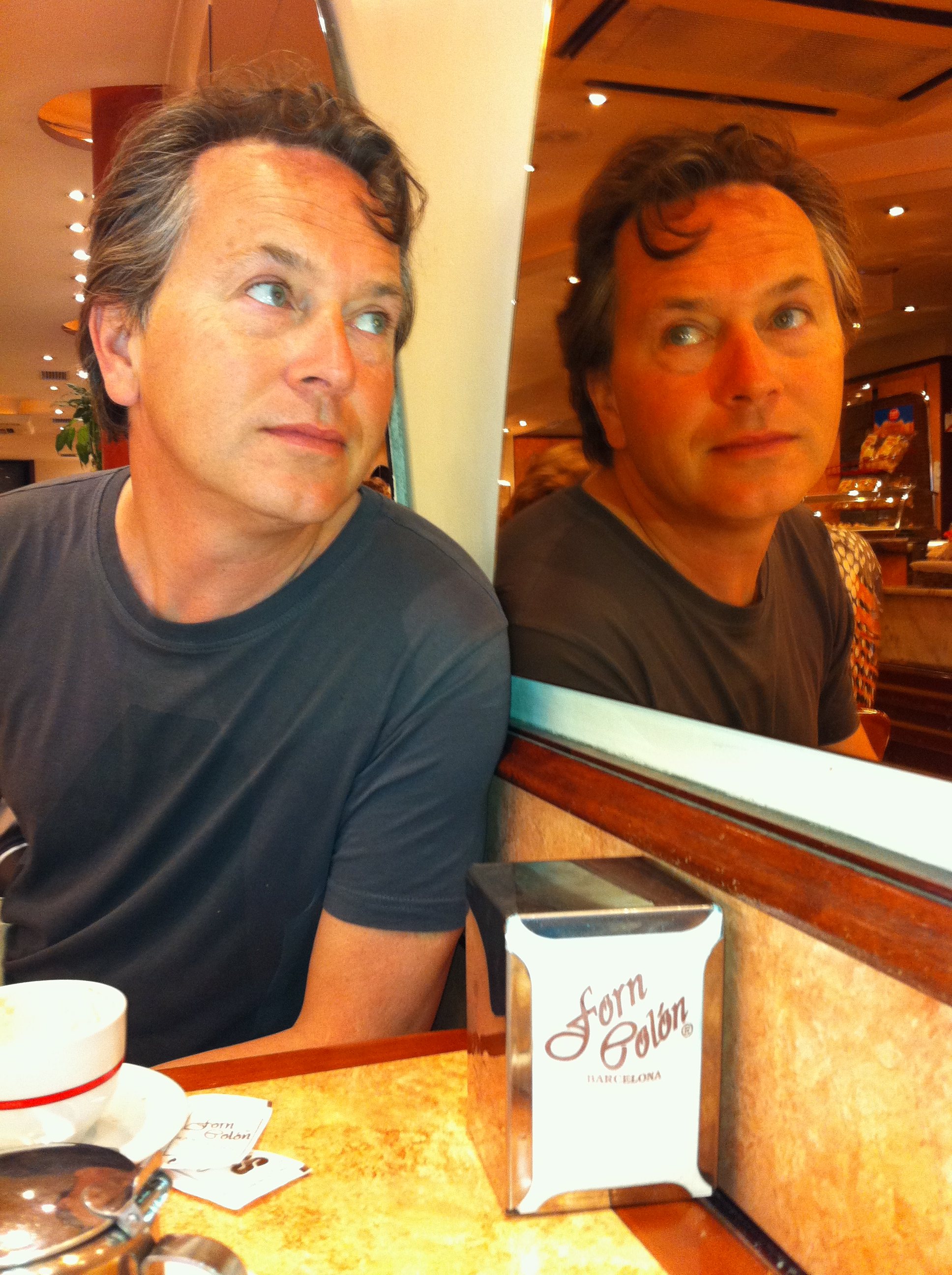 Picture Michiel Zonneveld